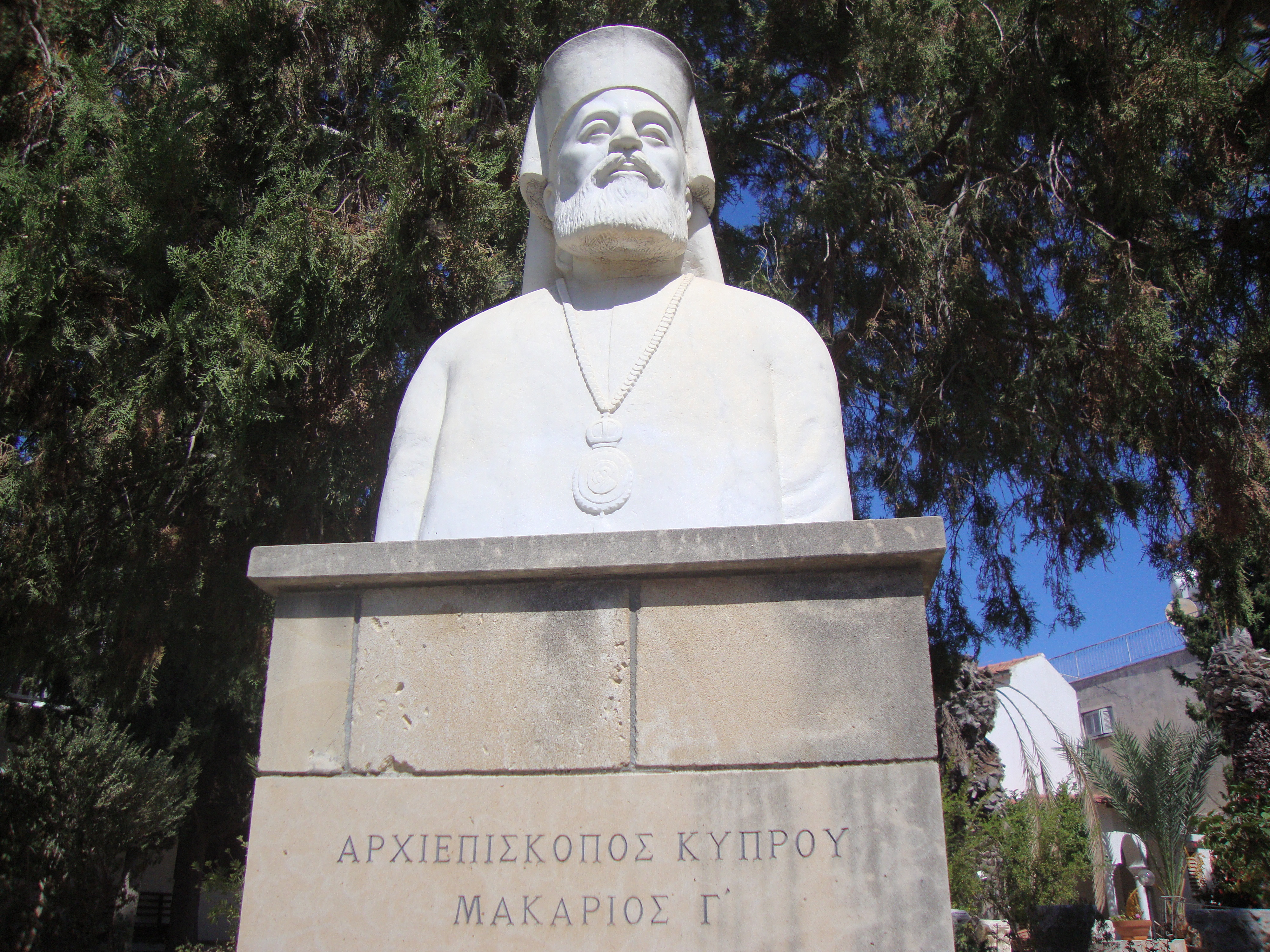 Archbishop Makarios III. Paphos. 09.2013.